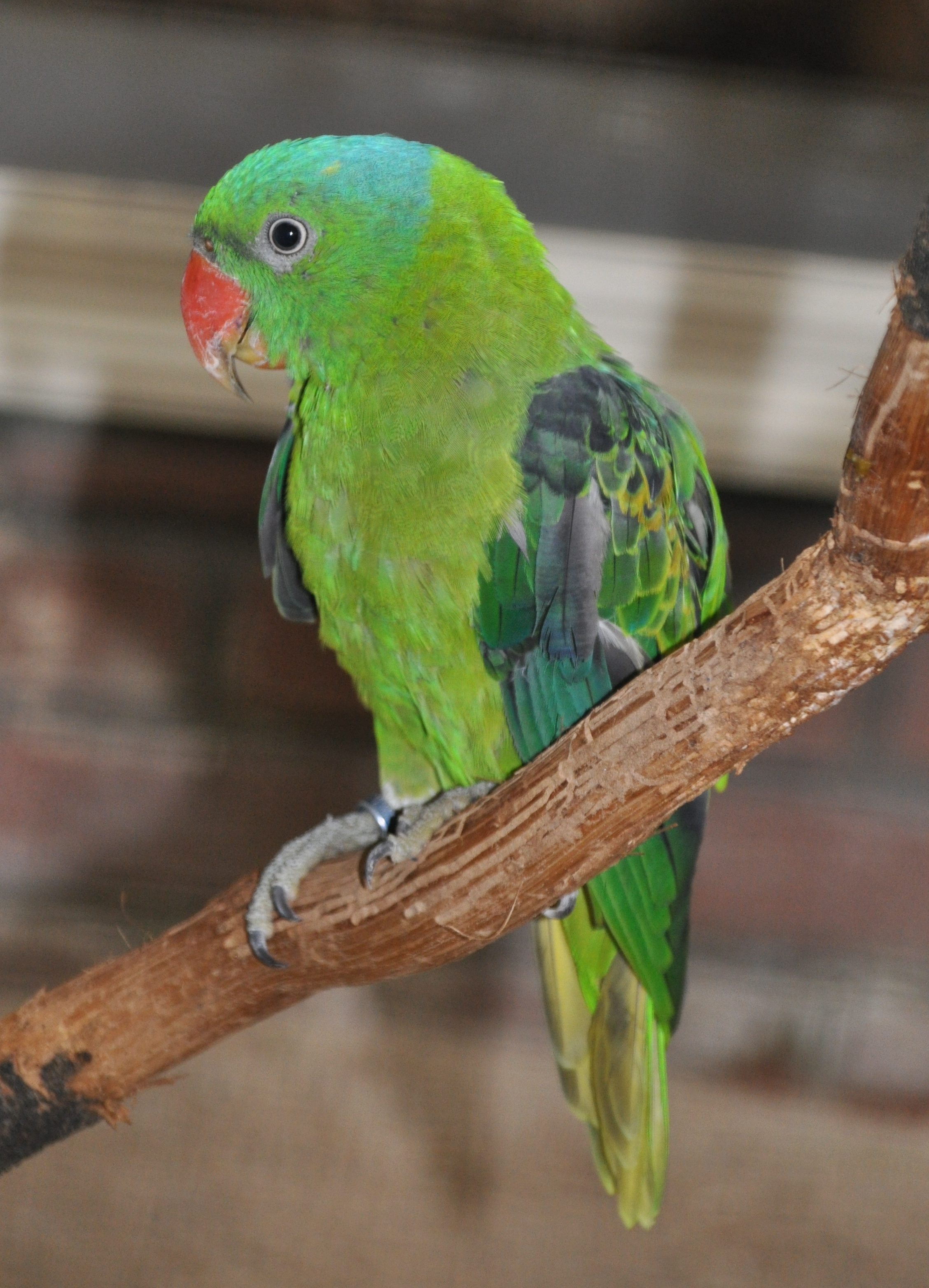 Blue-naped Parrot in the Walsrode Bird Park, Germany.